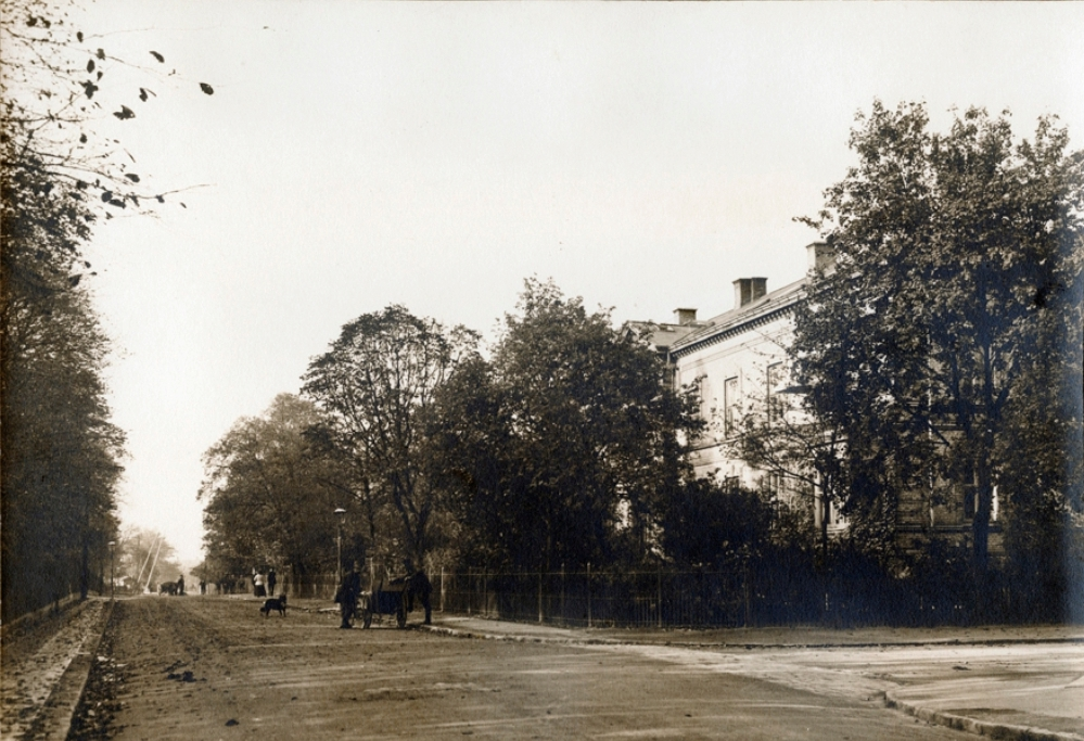 Peter Bangs Vej in Frederiksberg, Copenhagen, Denmark. Danish:"Peter Bangs Vej in FredePeter Bangs Vej, set mod vest. Set fra et punkt ud for Orla Lehmanns Vej. Til højre ses Diakonissestiftelsens sygepensionat Sarepta,"".